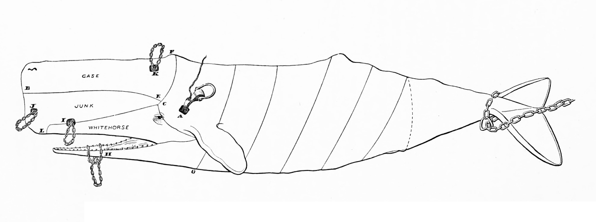 Outline of a sperm whale showing the manner of cutting.